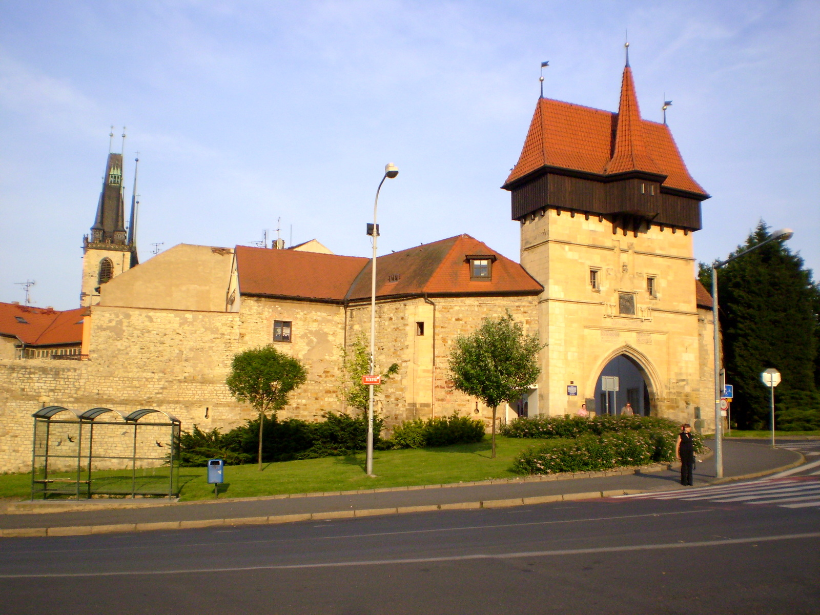 Fortifications (Louny), Louny Žatec gate from 1500, the only preserved gate in Louny